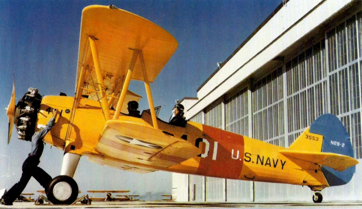 A U.S. sailor cranking the engine of a Stearman N2S-2 Kaydet (BuNo 3553) at the Naval Air Station Corpus Christi, Texas (USA), in 1943.